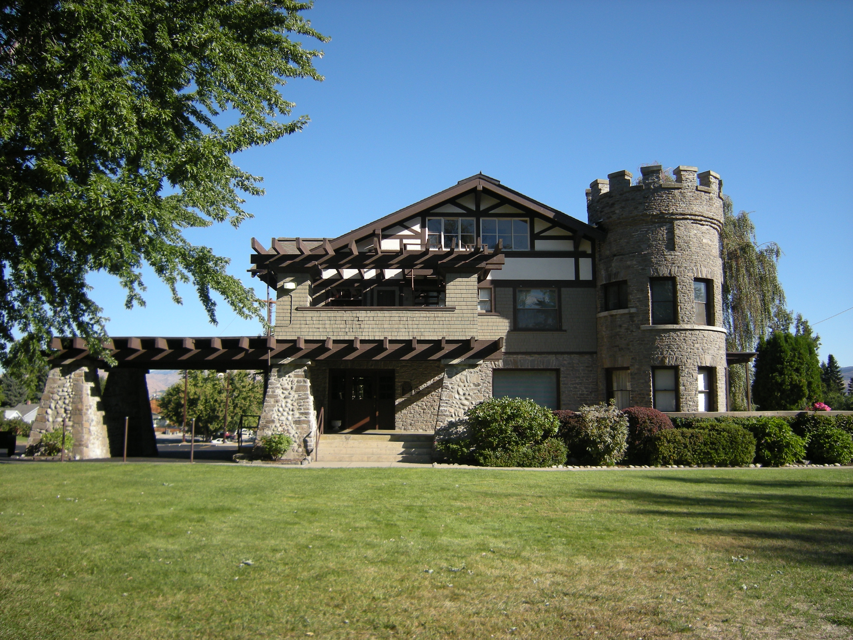 Wells House, Wenatchee, Washington. Built in 1909 for W. T. Clark, the house is on the National Register of Historic Places. Now operated by Wenatchee Valley College (whose campus is on the adjacent land that was Clark's estate) and owned by an alumni group.